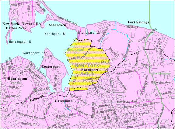 U.S. Census 2000 reference map for Northport